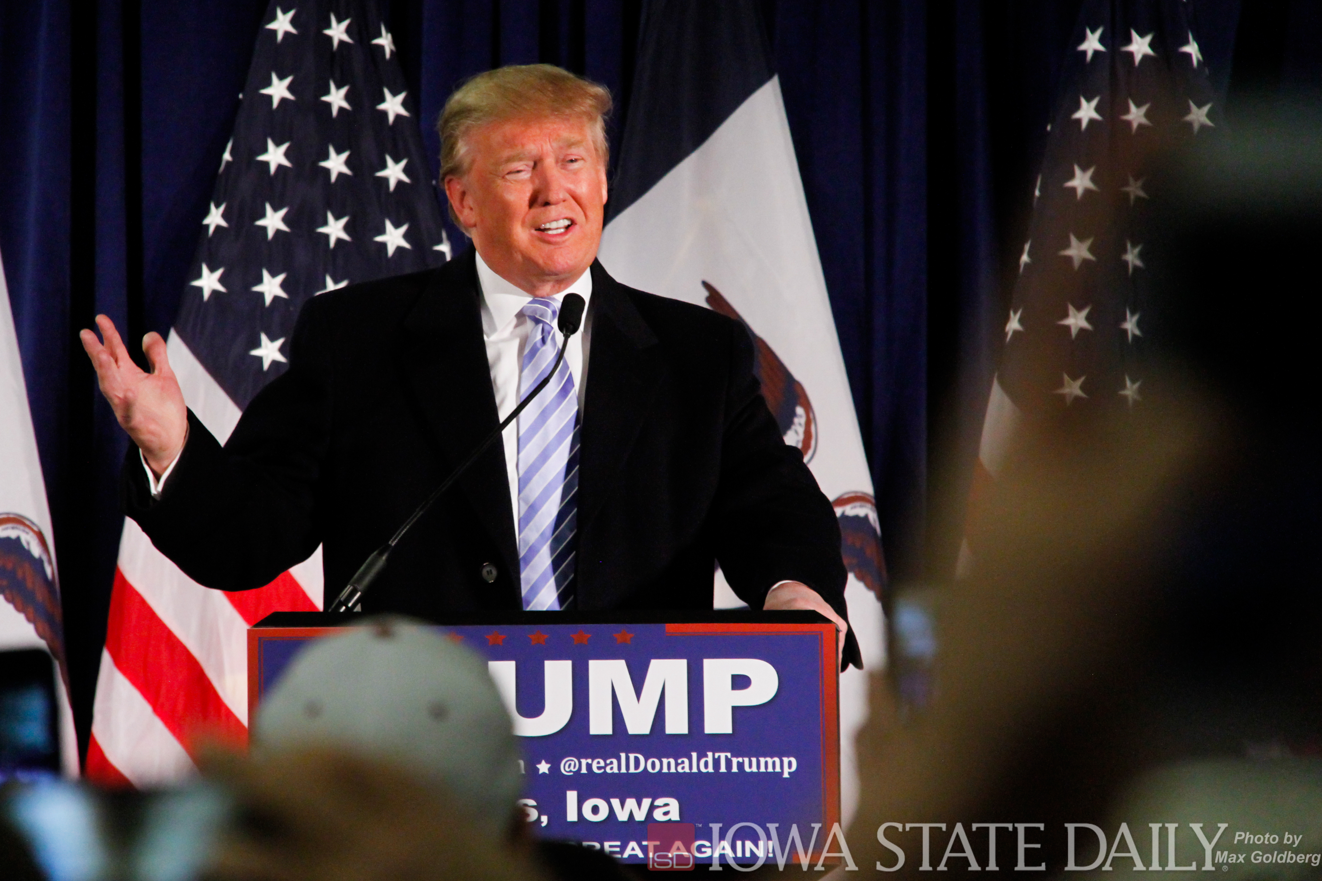 Republican presidential hopeful Donald Trump speaks in front of a crowd on Jan. 19, 2016 at the Hansen Agriculture Student Learning Center. At the rally, not only did Trump talk about economic and healthcare reforms, but was also endorsed by former governor of Alaska, Sarah Palin.